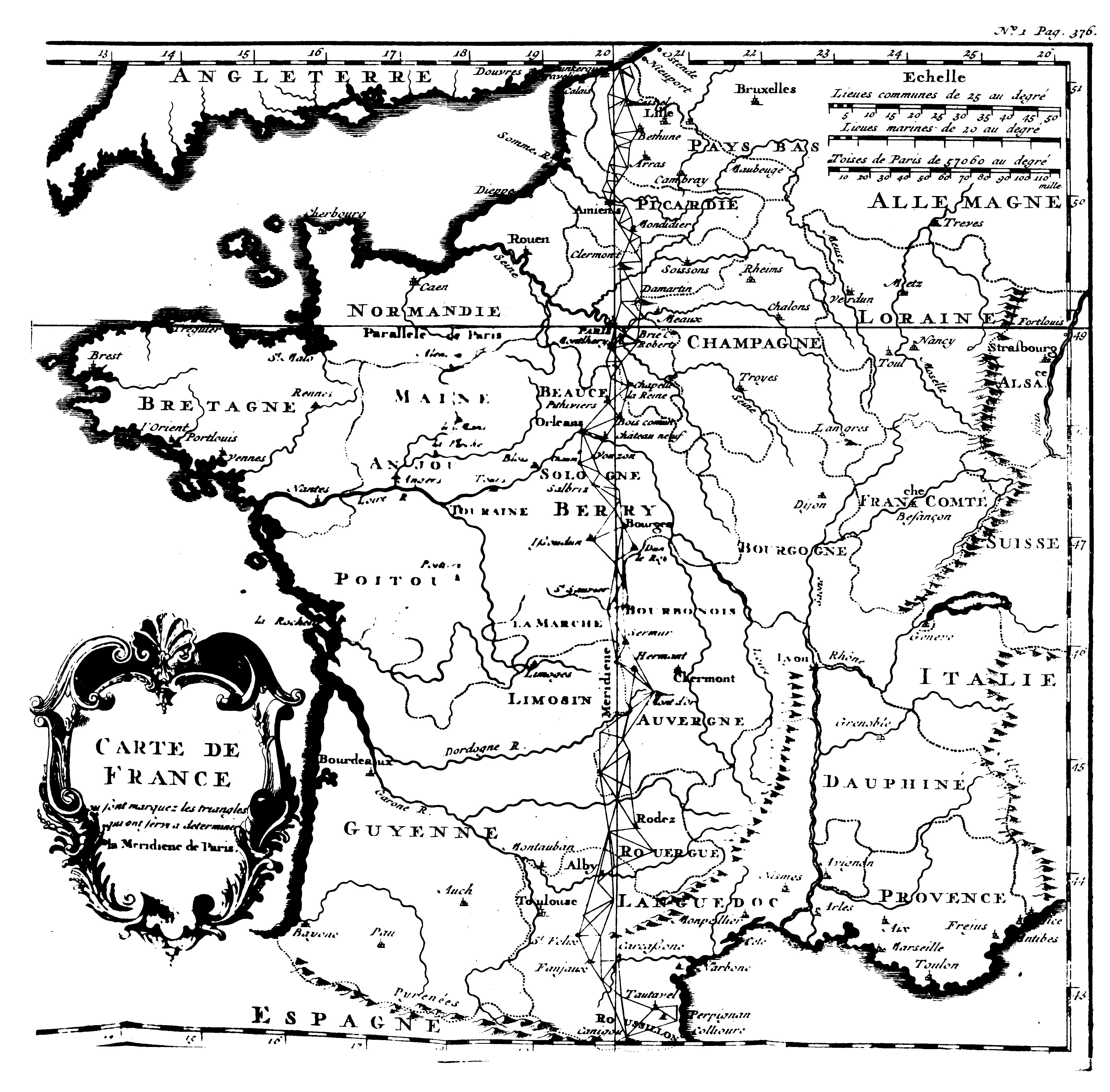 Cassini merdian as published in 1720 Traité de la grandeur et de la Figure de la Terre.